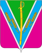 Coat of arms of Geimanovskaya, Krasnodar Krai, Russia.